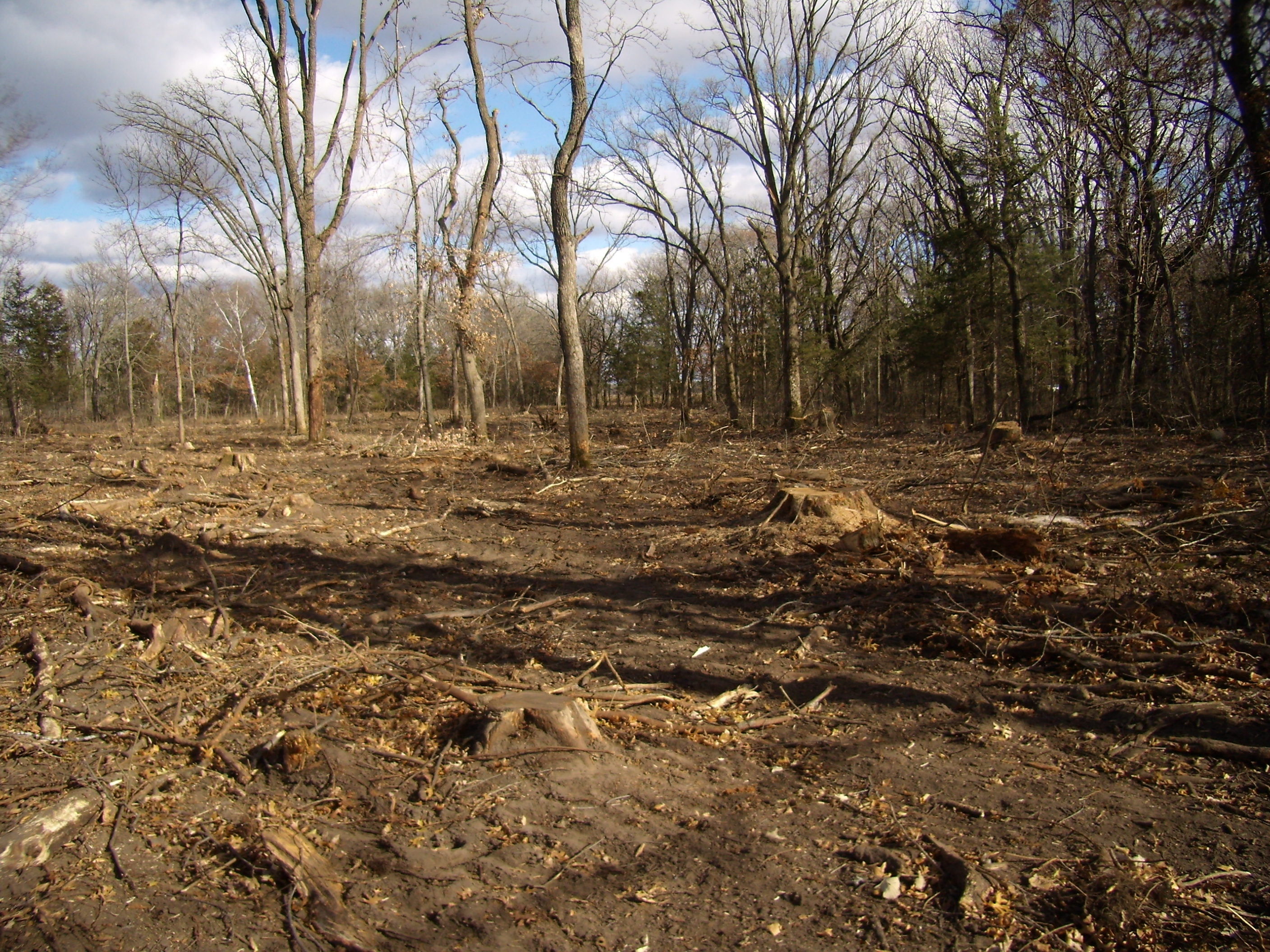 Site has been cleaned up of oak wilt infections (present and future) and buckthorn